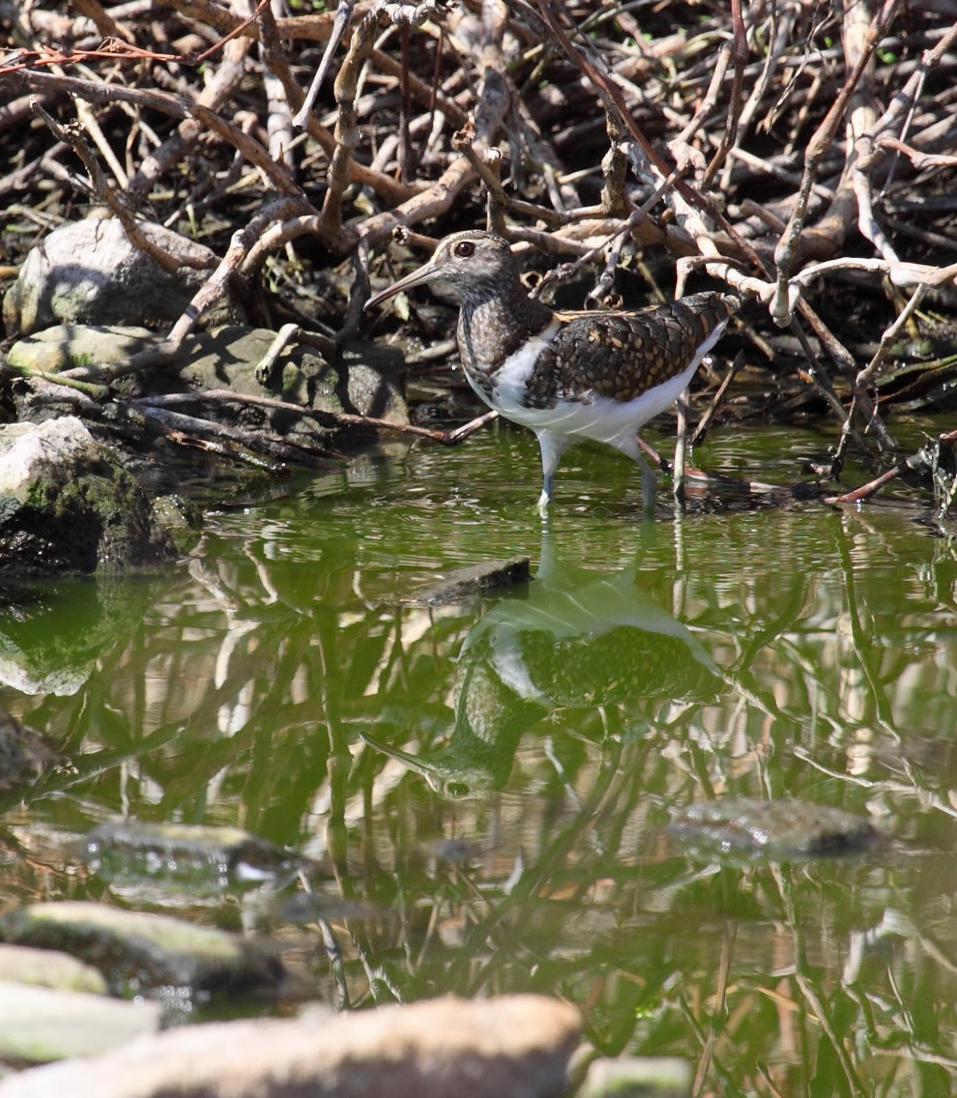 Australian Painted Snipe (Rostratula australis), Alice Springs Sewage Ponds, Northern Territory, Australia